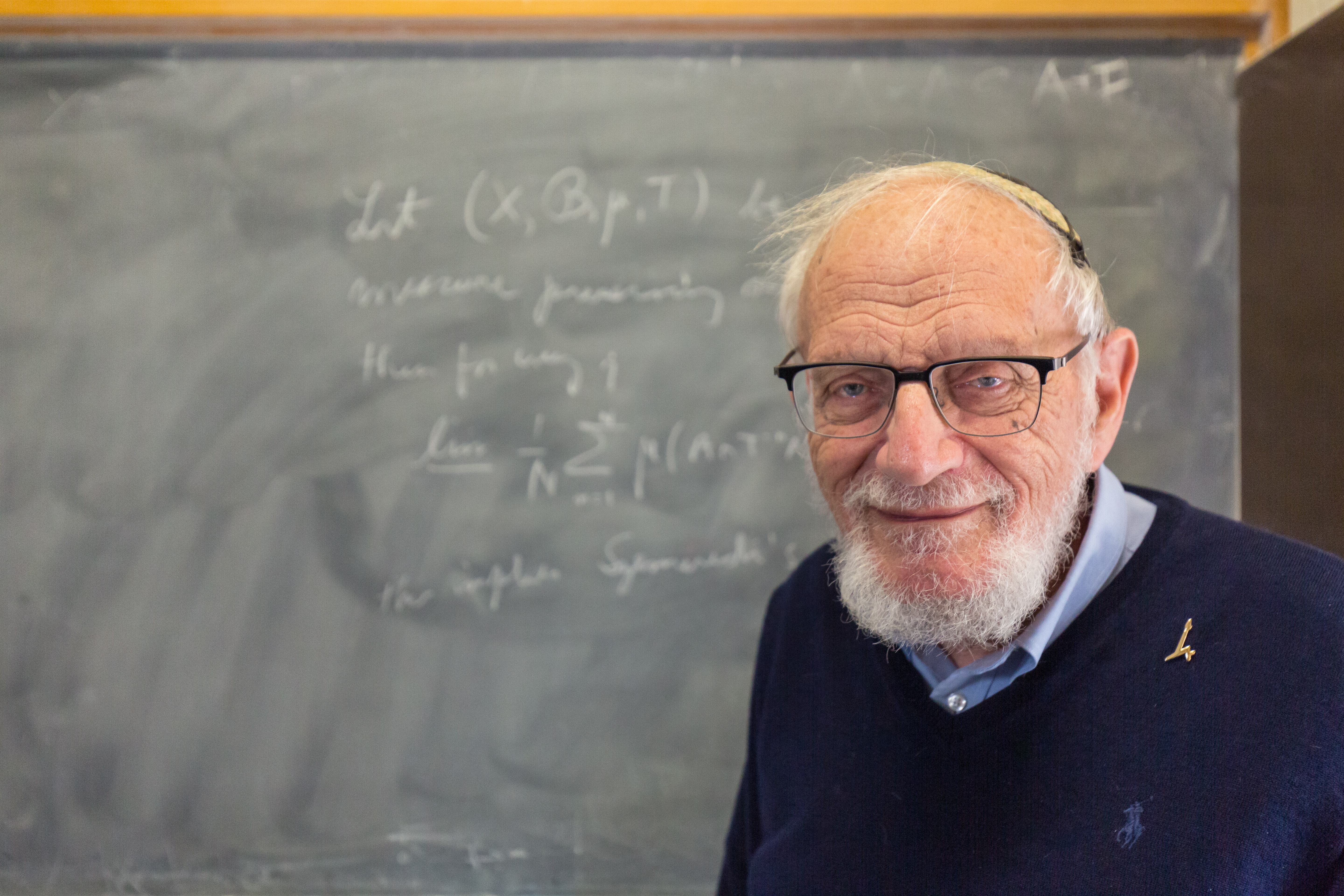 Professor Furstenberg on Hebrew University Campus, March, 2020